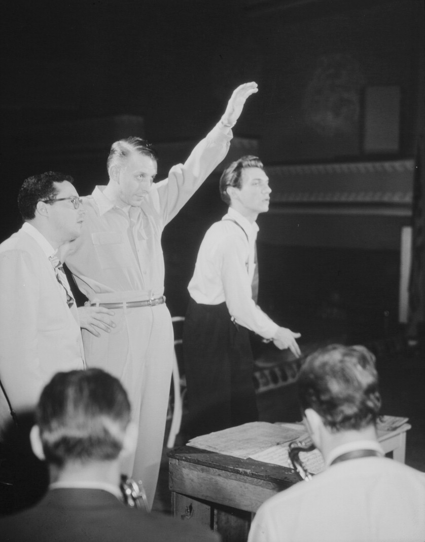 Pete Rugolo, Stan Kenton, and Bob Graettinger, 1947 or 1948 (Photograph by William P. Gottlieb)